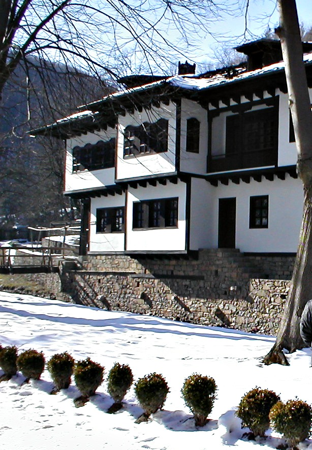 Bulgaria - Kostenkovci village, Gabrovo Province